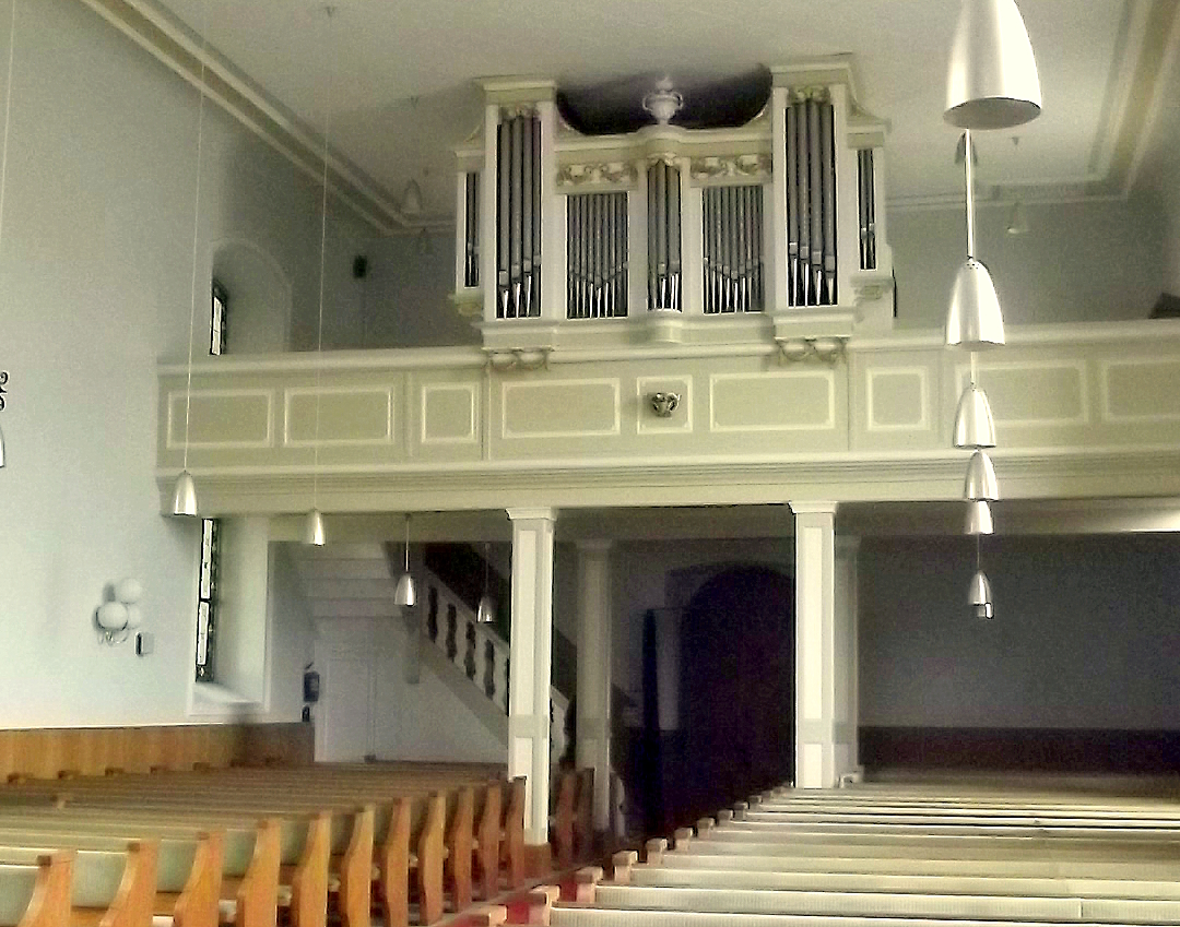 Interior of the protestant church in Güdingen, Saarland, Germany